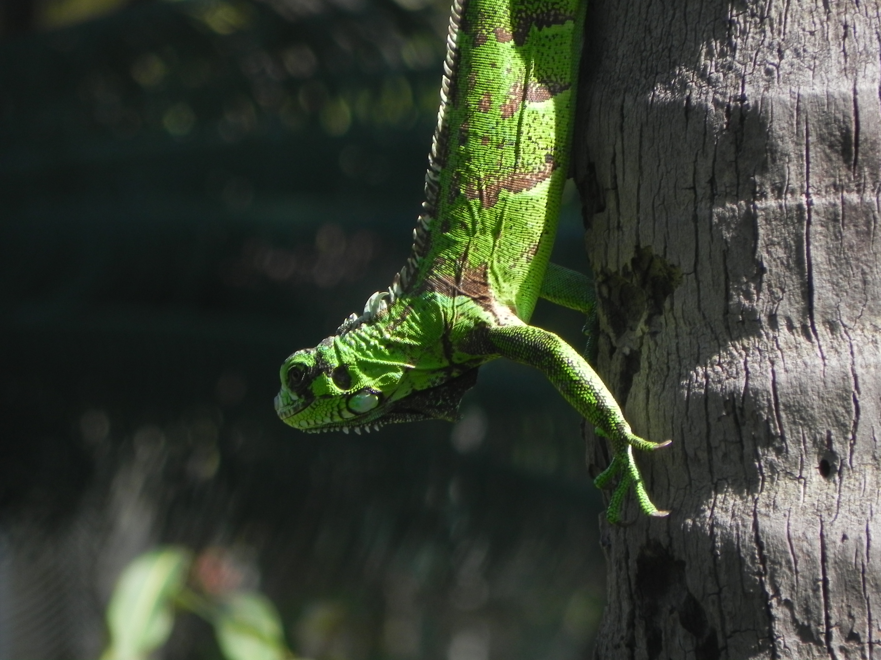 Sirinhaém, Brazil